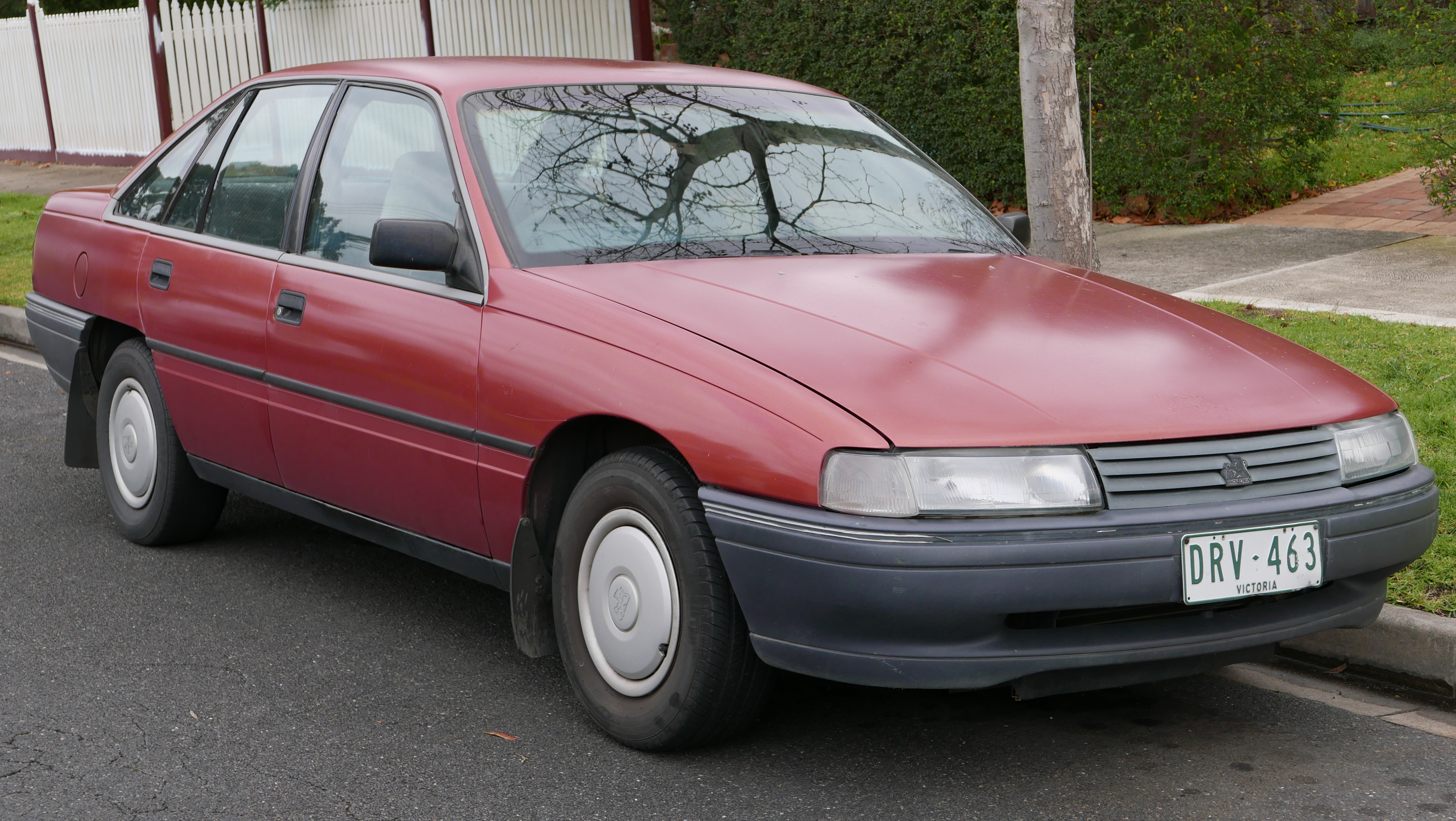 1989 Holden Commodore (VN) Executive sedan. Photographed in Alphington, Victoria, Australia. Vehicle registration enquiry results Jurisdiction Victoria Registration DRV463 Chassis code 6H8VNK19HKL358690 Engine code VH1064611 Compliance date Not available Year of manufacture 1989